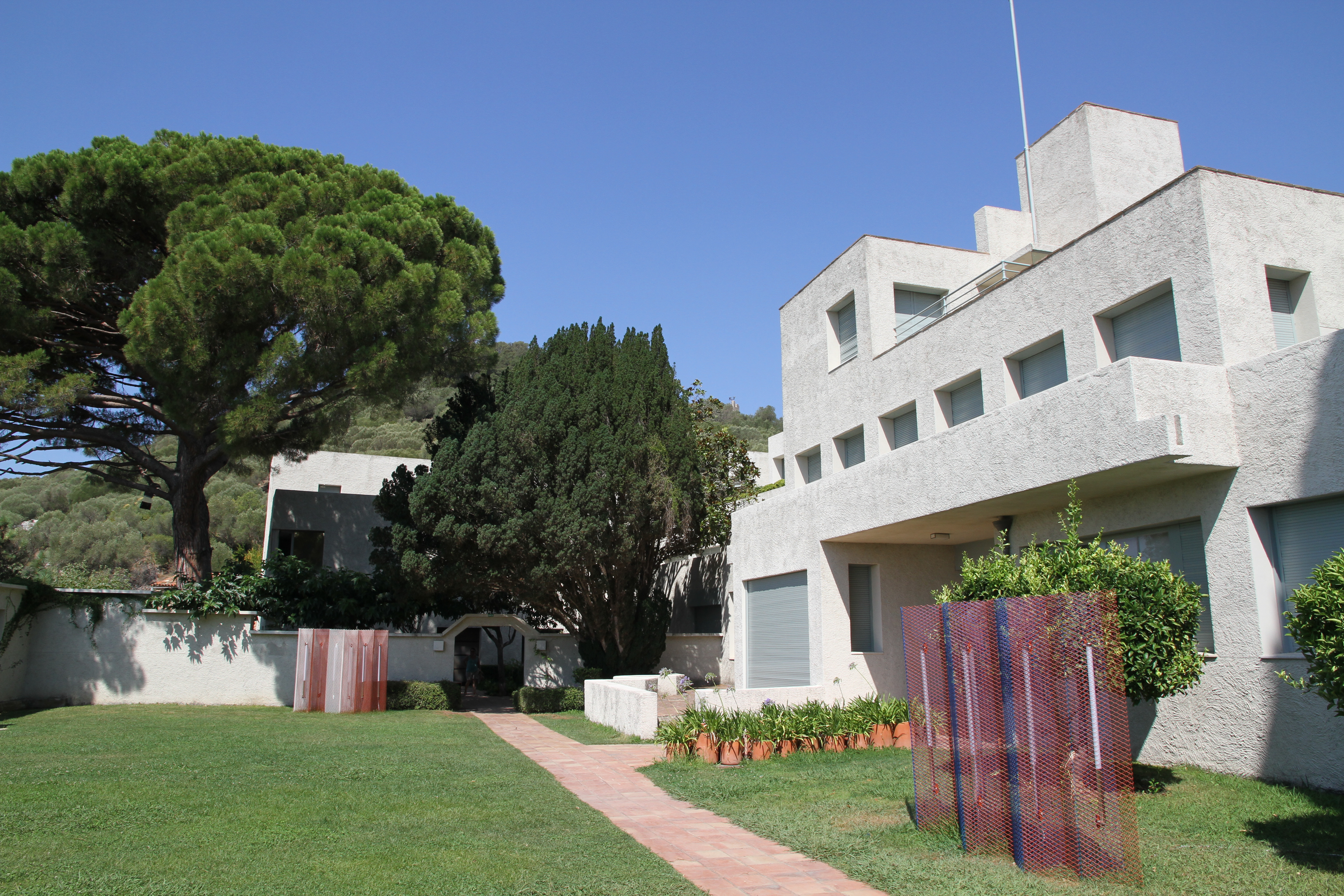 View in the garden of the Villa Noailles